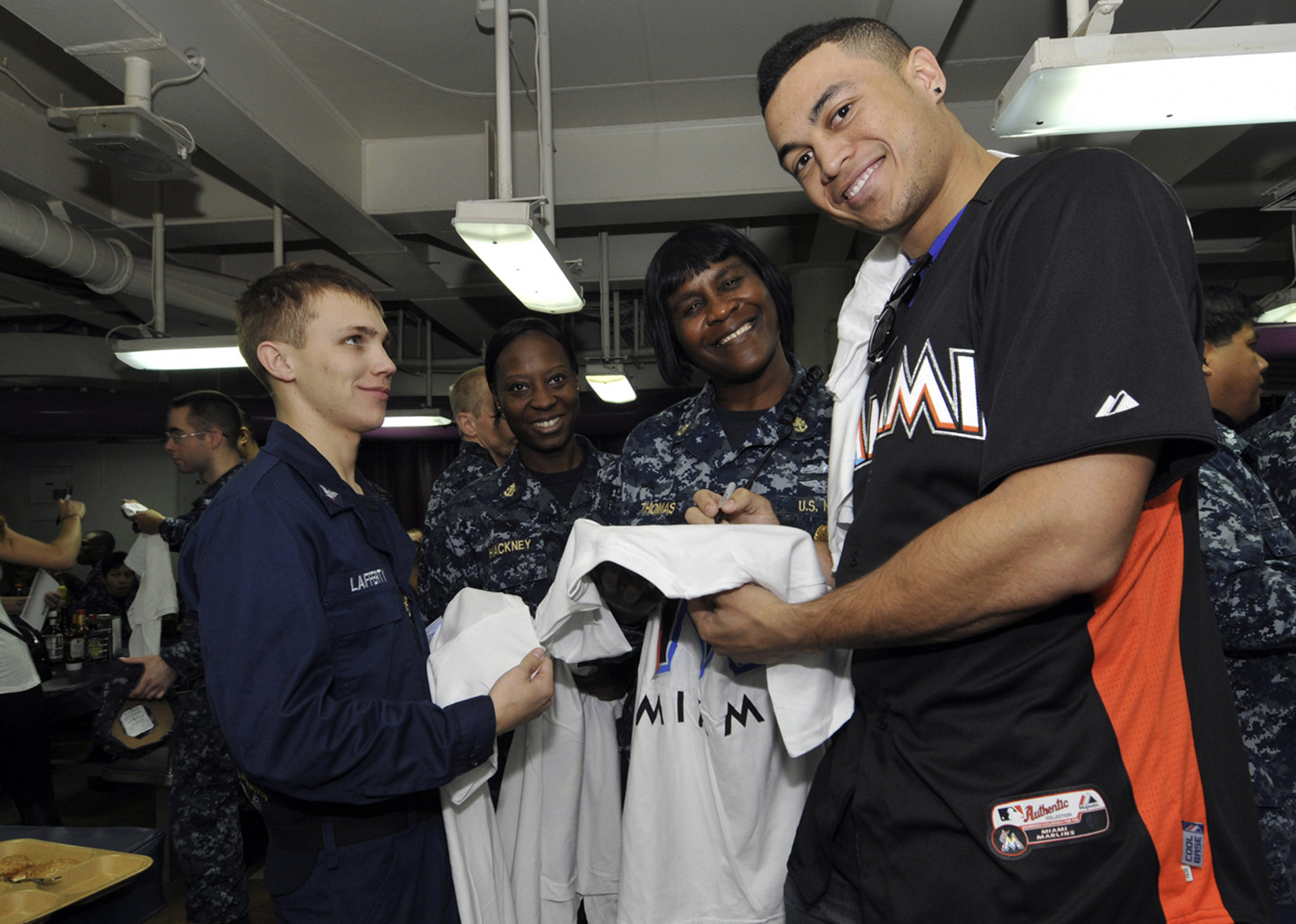 YOKOSUKA, Japan (Dec. 05, 2011) - Miami Marlins Baseball player Giancarlo Stanton aboard the nuclear-powered aircraft carrier USS George Washington (CVN 73).